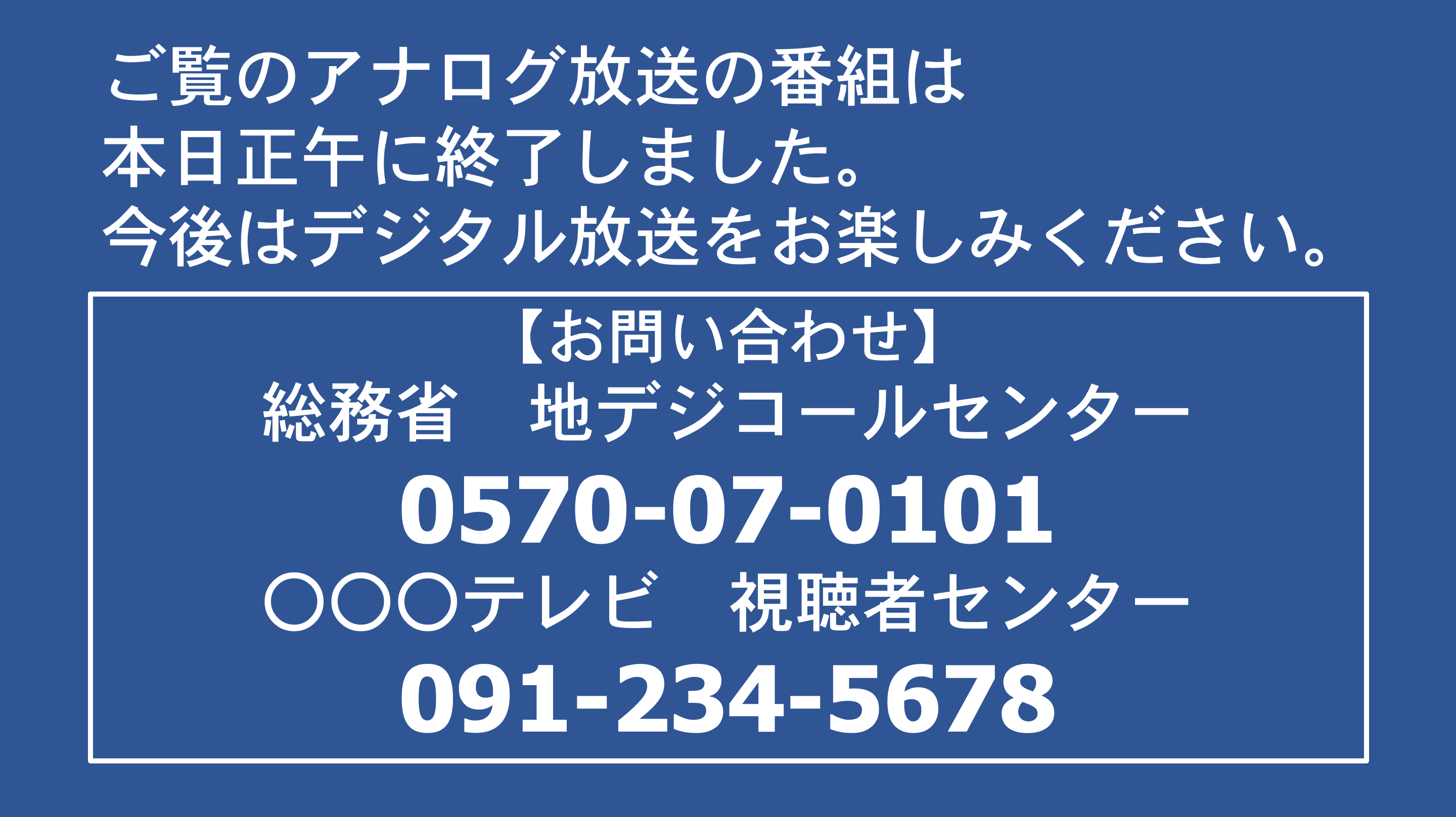 Example of analog television termination warning seen in Japan. Phone numbers for Ministry of Internal Affairs Digital Television Helpline and television station inquiry center are placed on a blue background.